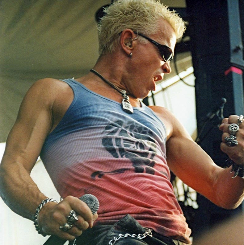 Description: Billy Idol in a concert Author: User:Johnbrennan06